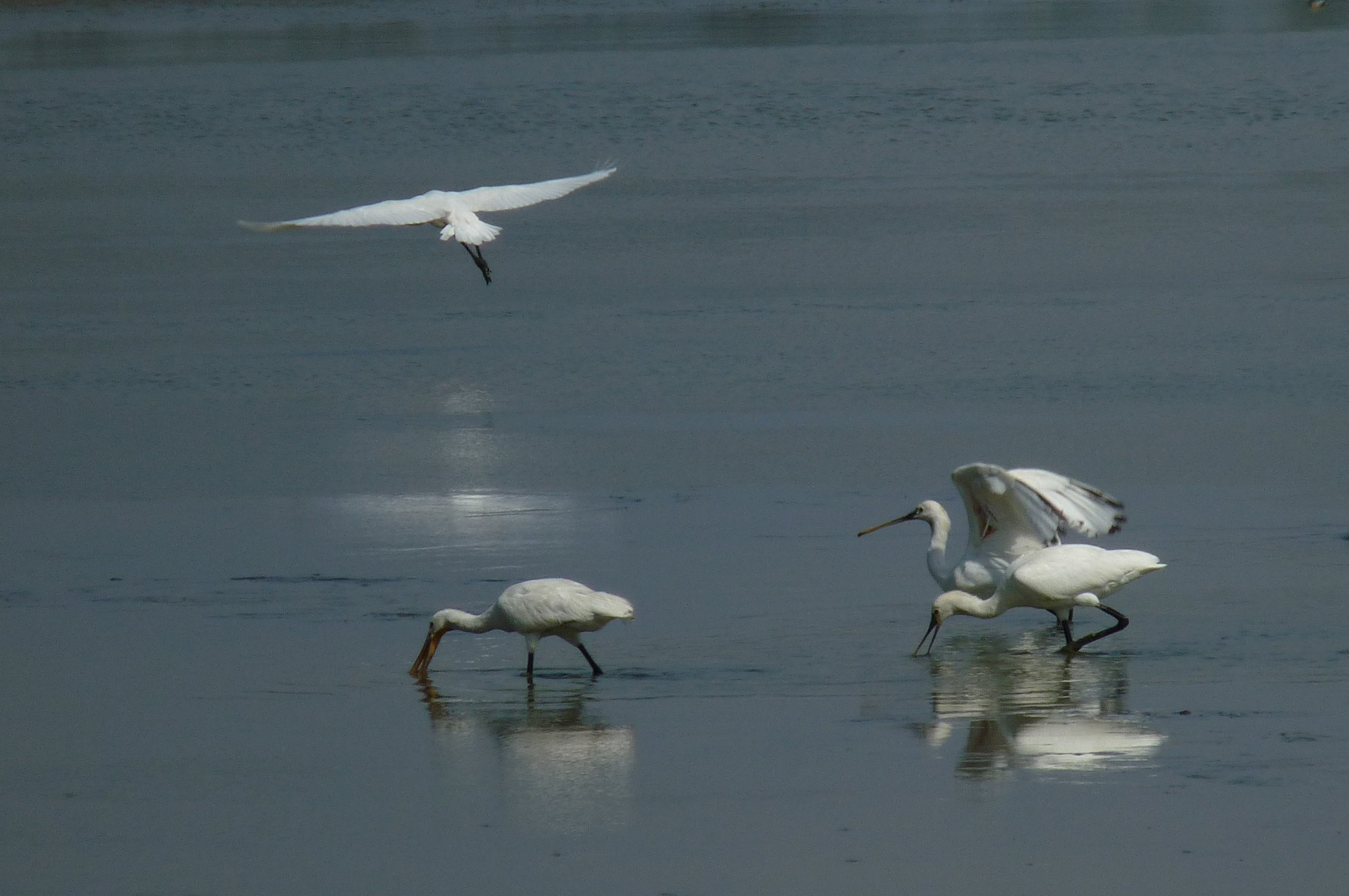 Eurasian Spoonbill or Common Spoonbill (Platalea leucorodia) found at Singanallur lake, Coimbatore